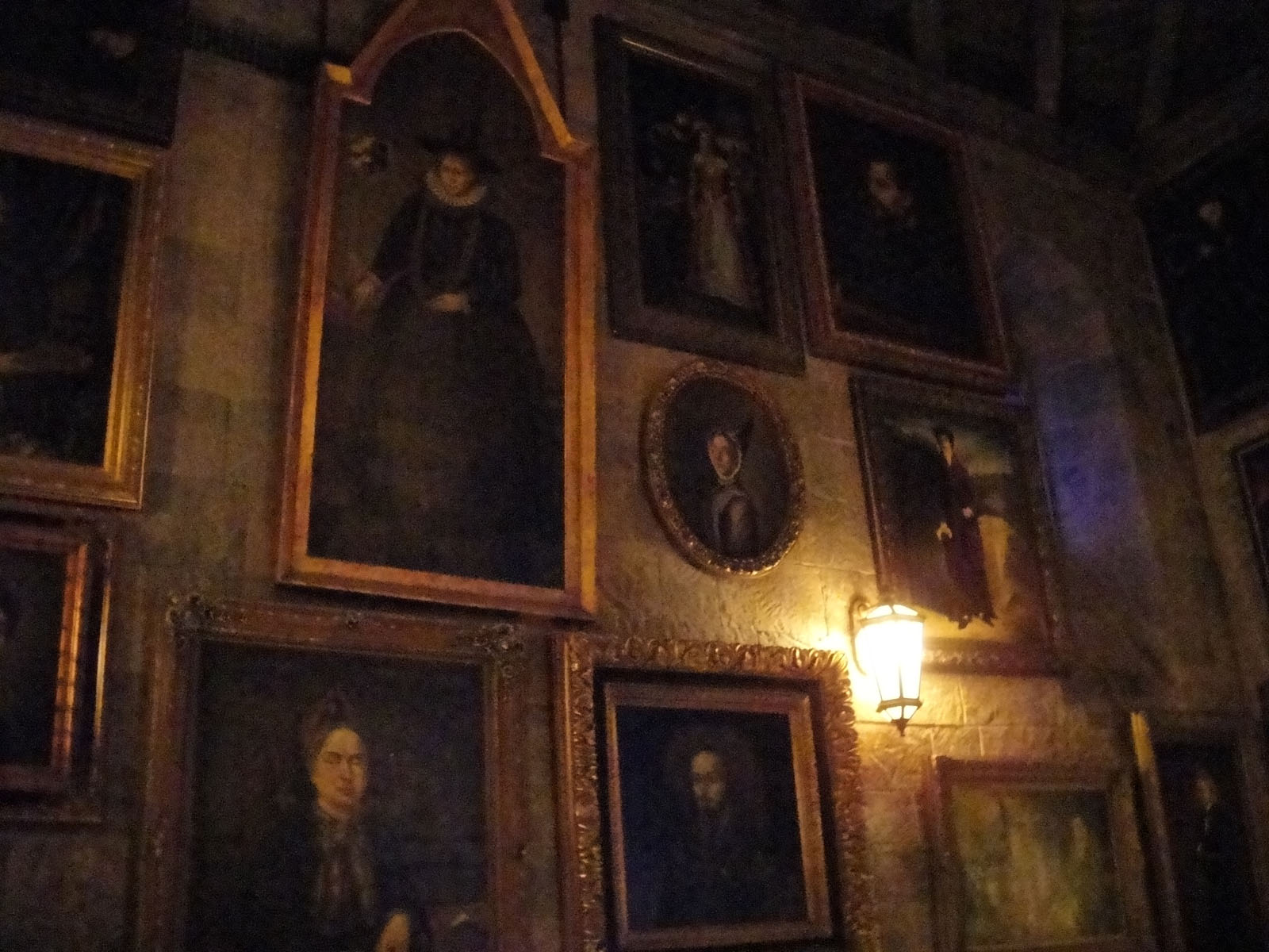 Wizarding World of Harry Potter - talking paintings on the walls of the queue for the Forbidden Journey